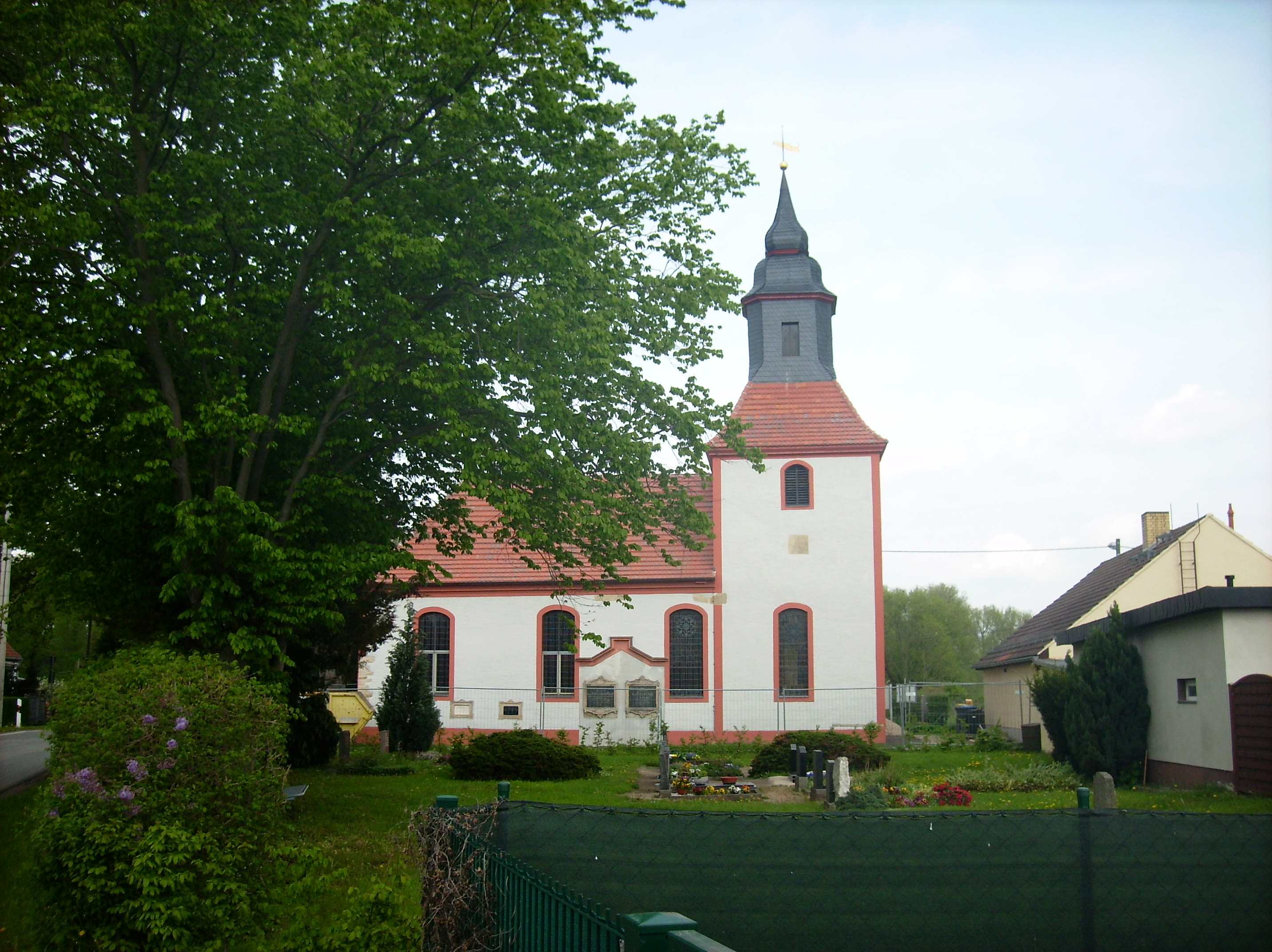 Church of Kleinliebenau manor (Schkeuditz, Nordsachsen district, Saxony)